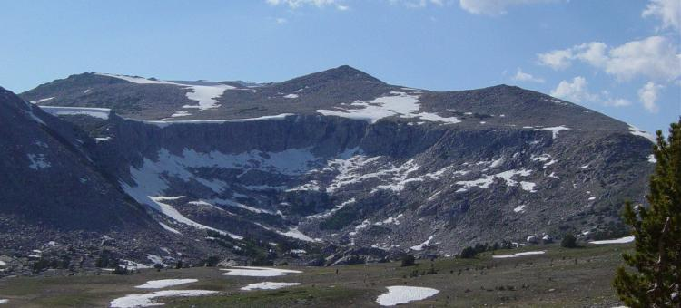 Glacial cirque in Yosemite National Park, in the Gaylor Lakes basin